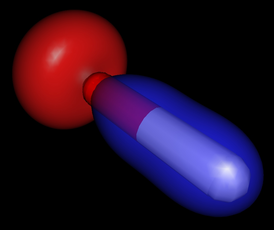 Author: Andrew Ryzhkov The hydroxyl radical molecular structure was calculated by MRCI/aug-CC-pVTZ method using MOLPRO suite of quantum chemistry programs. Then it was visualized by the MOGL/Molden program.